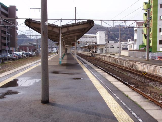 West Japan Railway Sanyo Main Line Kasaoka Station Platform 西日本旅客鉄道 山陽本線 笠岡駅 プラットホーム